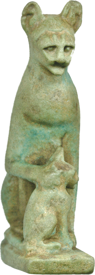 Representations of cats are well-known in Ancient Egypt from the 2nd millennium BC. The onomatopoetic Egyptian name was "miu" (mjw) for the male, and "mit" (mjjt) for the female cat. Egypt's economic base was agriculture and therefore rodent- and snake-hunting felines were very much appreciated. In terms of religious beliefs the male cat was connected to the sun-god, and the female cat to Bastet. Particularly in the Late and Greco-Roman Periods representations of the goddess as well as cats and cats with kittens became very popular to symbolize fertility and renewal. This amulet displays a seated female cat with a kitten in front of her. This kitten is facing the right and has the same posture as its mother. The amulet has a rectangular base and a loop on the back of the cat.